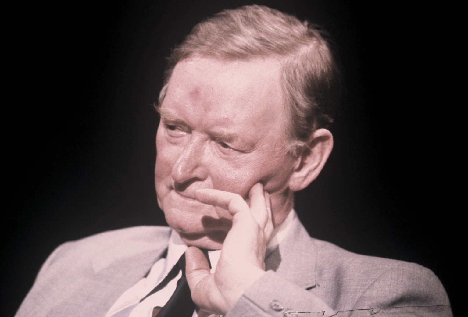 T. Dan Smith appearing on television programme After Dark on 19 February 1988, (c) Open Media Ltd 1988